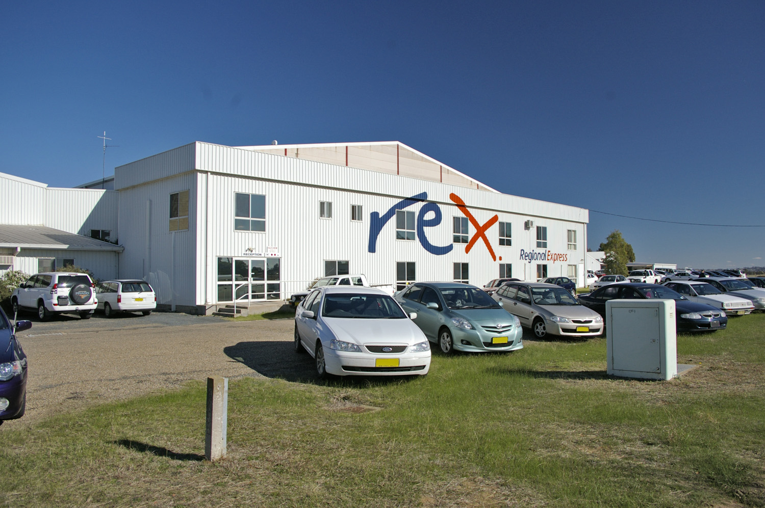 Regional Express Headquarters at Wagga Wagga Airport.